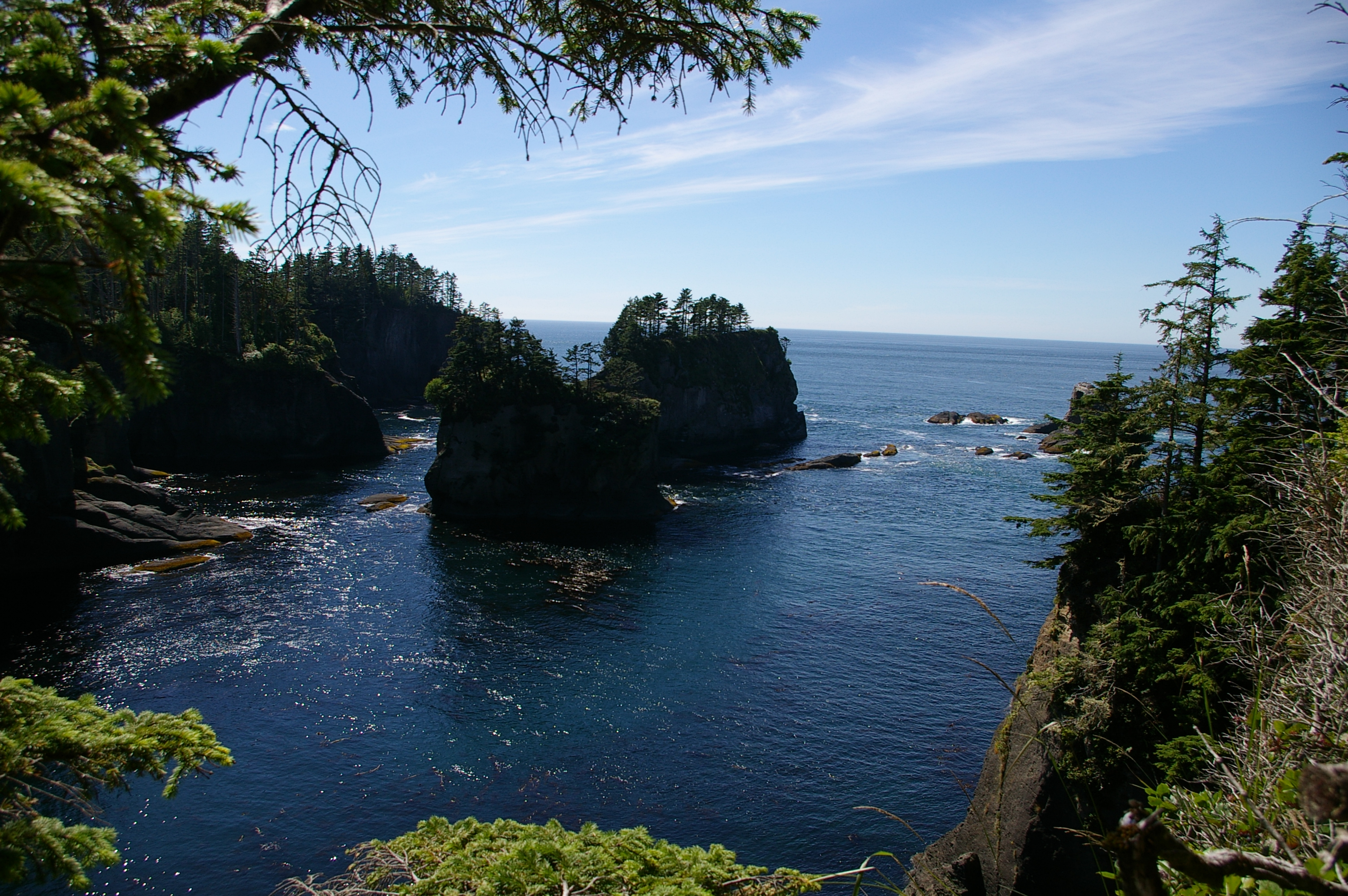 Cape Flattery, view from first deck looking South-West